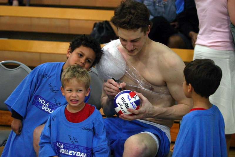 Klosterman-giving-autographs after NCCA game